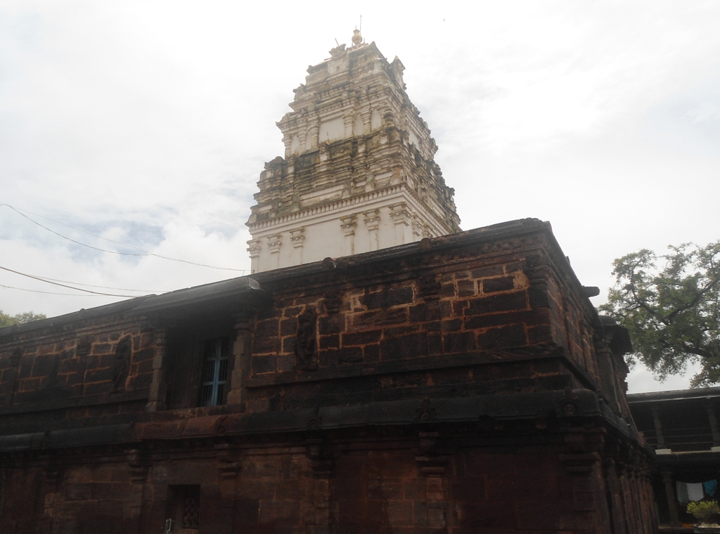 View of Kumara Bhimarama Temple Dedicated to Lord Shiva at Samalkota in Andhra Pradesh